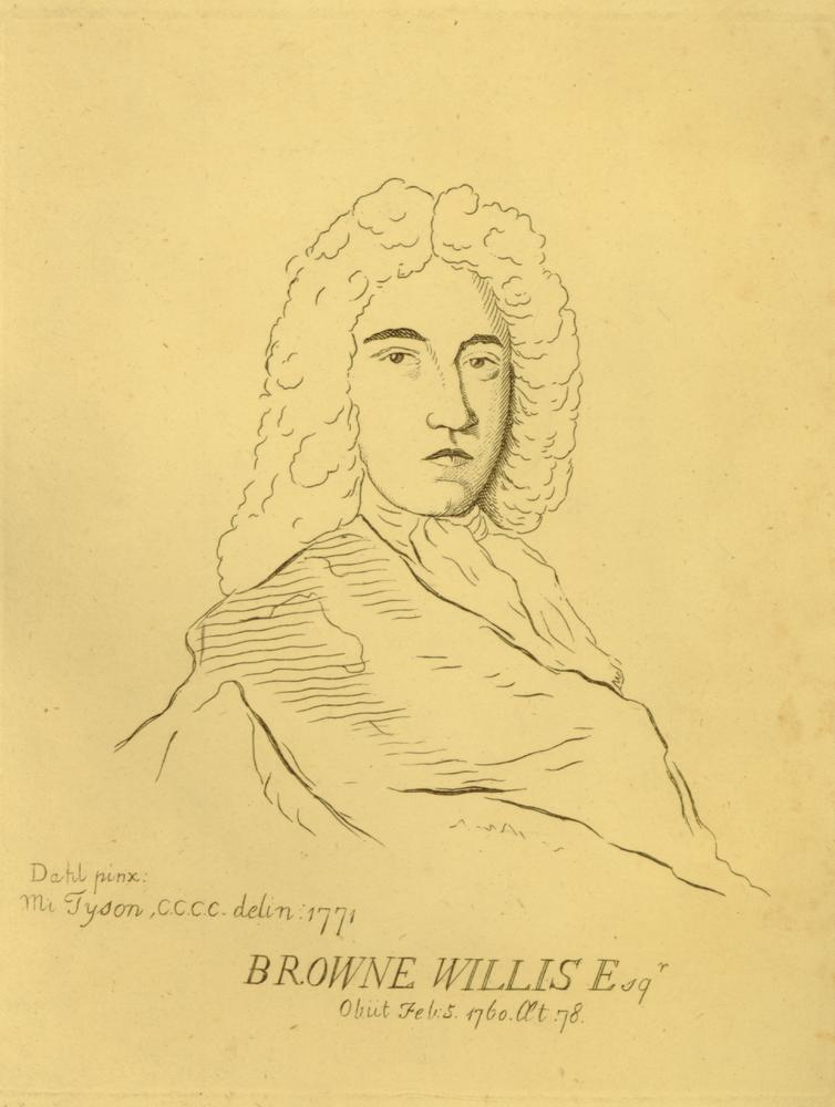 Etching of the English antiquary and politician Browne Willis (1682–1760). Etching by Michael Tyson (1740–1780) after a portrait by Michael Dahl (1659–1743).